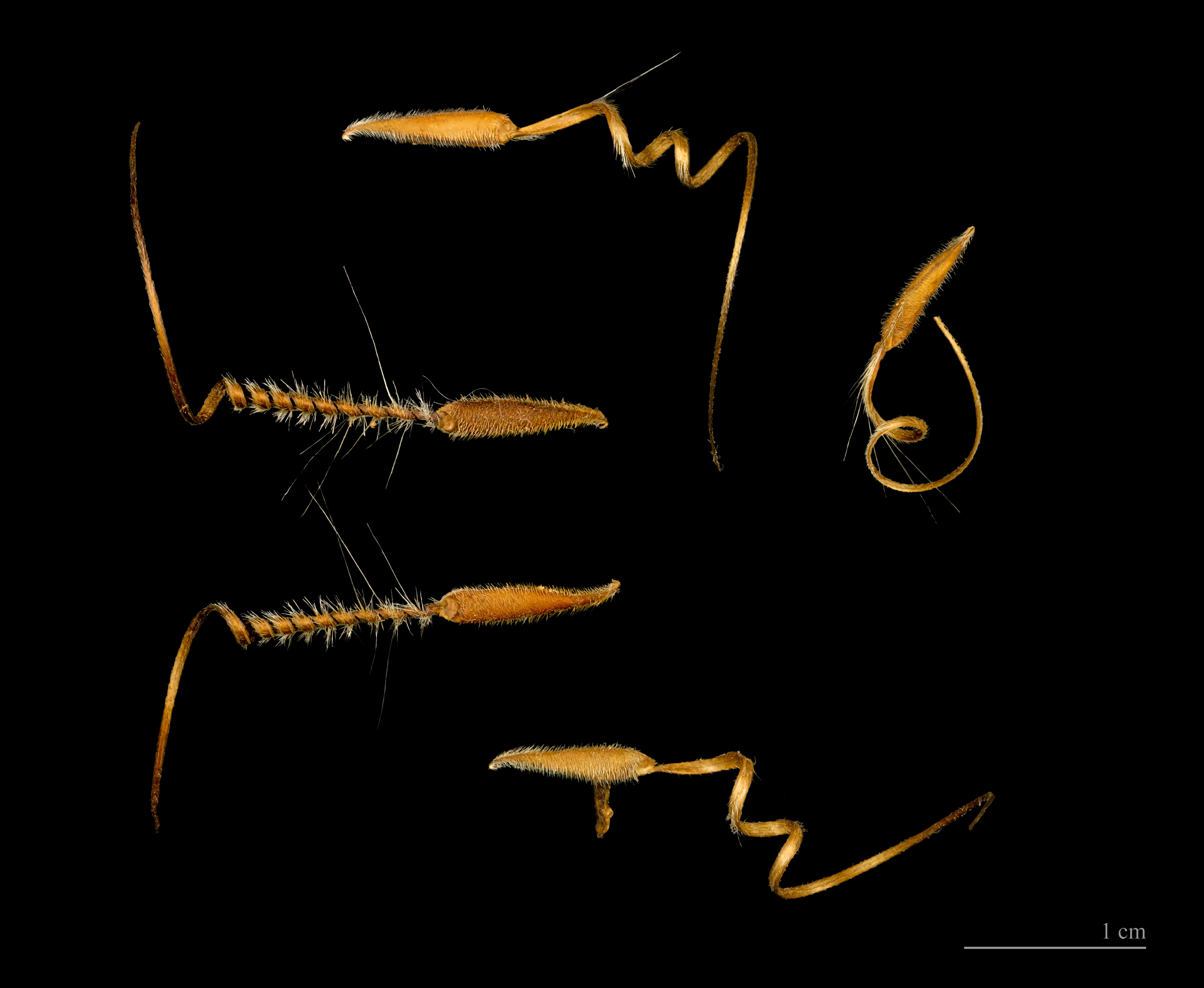 Achane of Common Stork's-bill